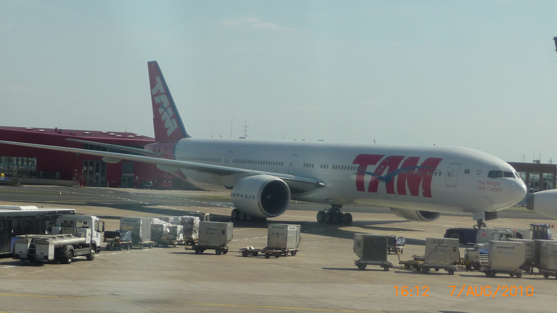 TAM Airlines Boeing 777-32WER (PT-MUC, MSN: 37666/LN: 740) at Frankfurt Airport (FRA/EDDF).